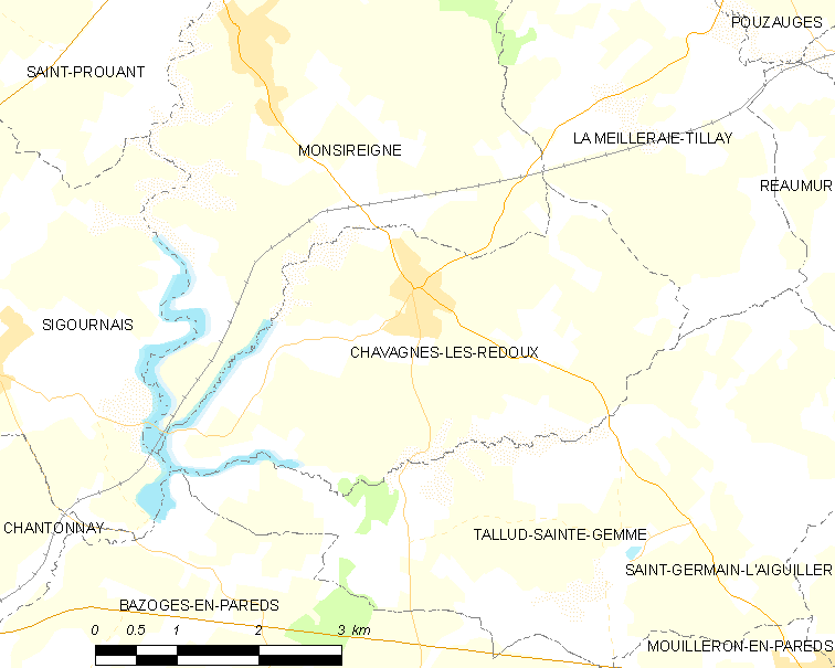 Map of French municipality Chavagnes-les-Redoux